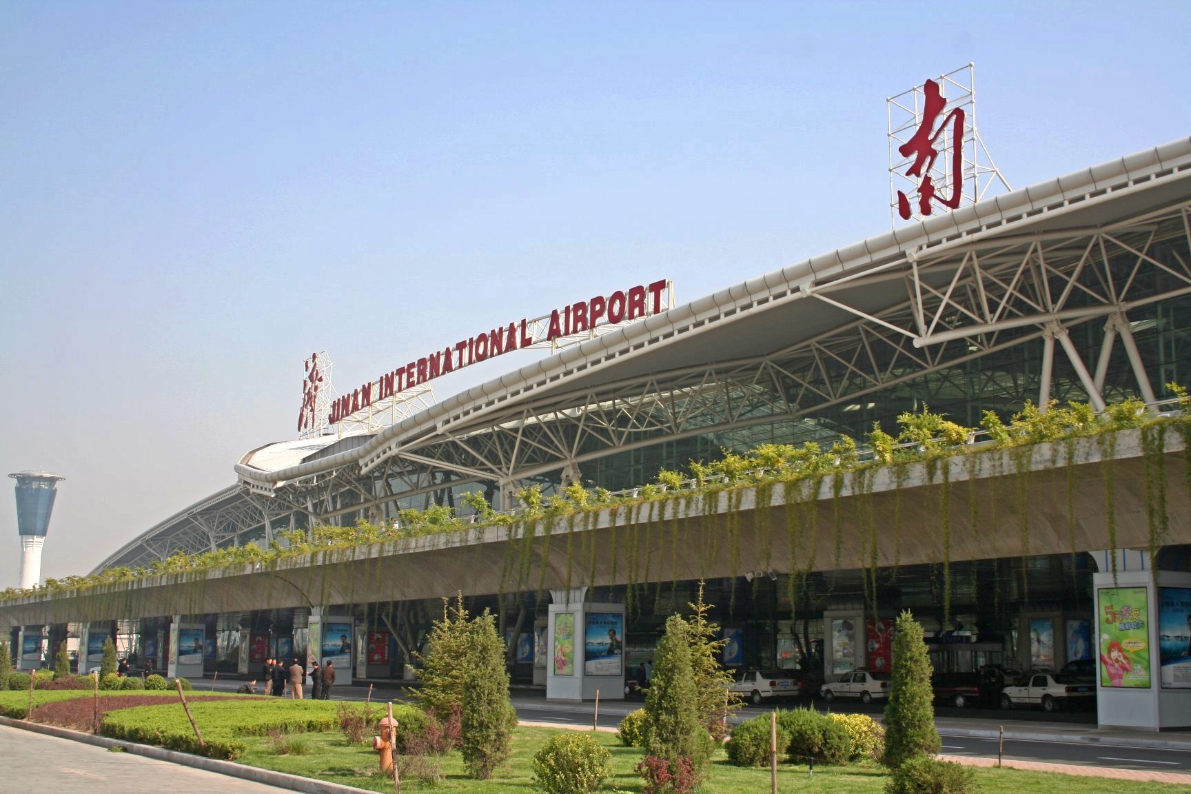 Photograph of the terminal building of Jinan Yaoqiang International Airport in Jinan, China.